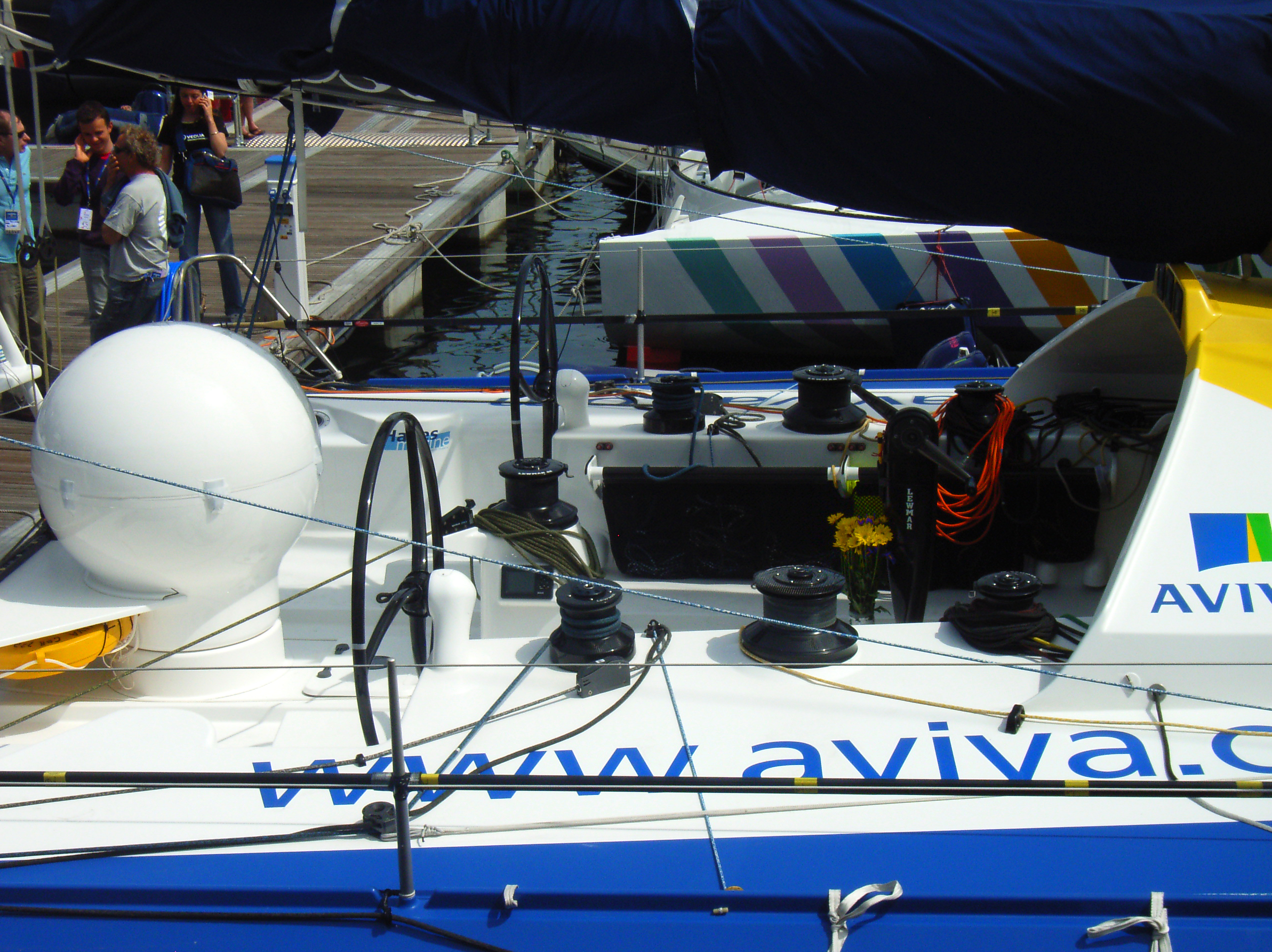 Transat Plymouth